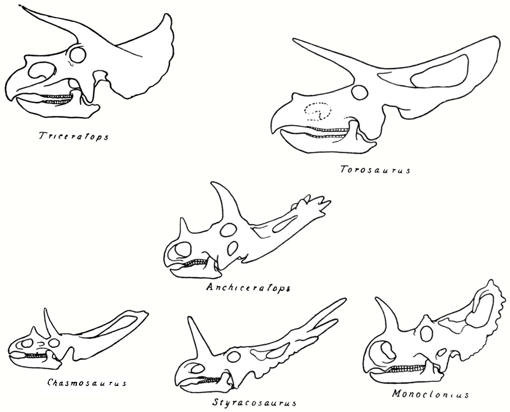 Skulls of different members of the Ceratopsidae, a group of ornithischian dinosaurs. Original caption: “Skulls of Horned Dinosaurs. The lower row, Chasmosaurus, Styracosaurus, Monoclonius, are from the Middle Cretacic (Belly River formation) of Alberta; Anchiceratops is from the Upper Cretacic (Edmonton formation) of Alberta; Triceratops and Torosaurus from the uppermost Cretacic (Lance formation) of Wyoming.”